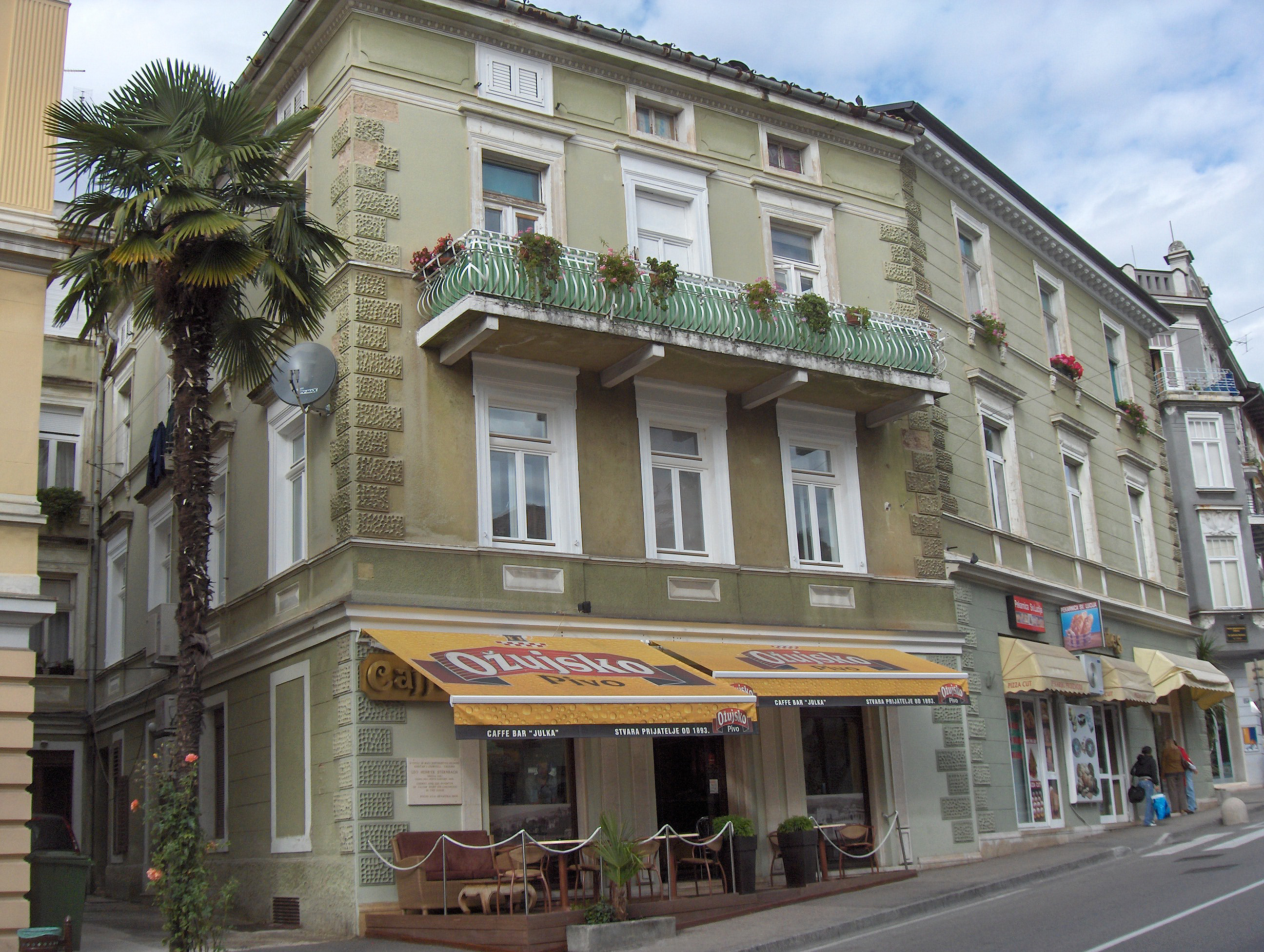 House in Opatija, Croatia, where Leo Sternbach spent his youth. He was a chemist, inventor of Valium (diazepam, a very widely used psychotropic medication used to control anxiety, psychomotor agitation, seizures, etc.).